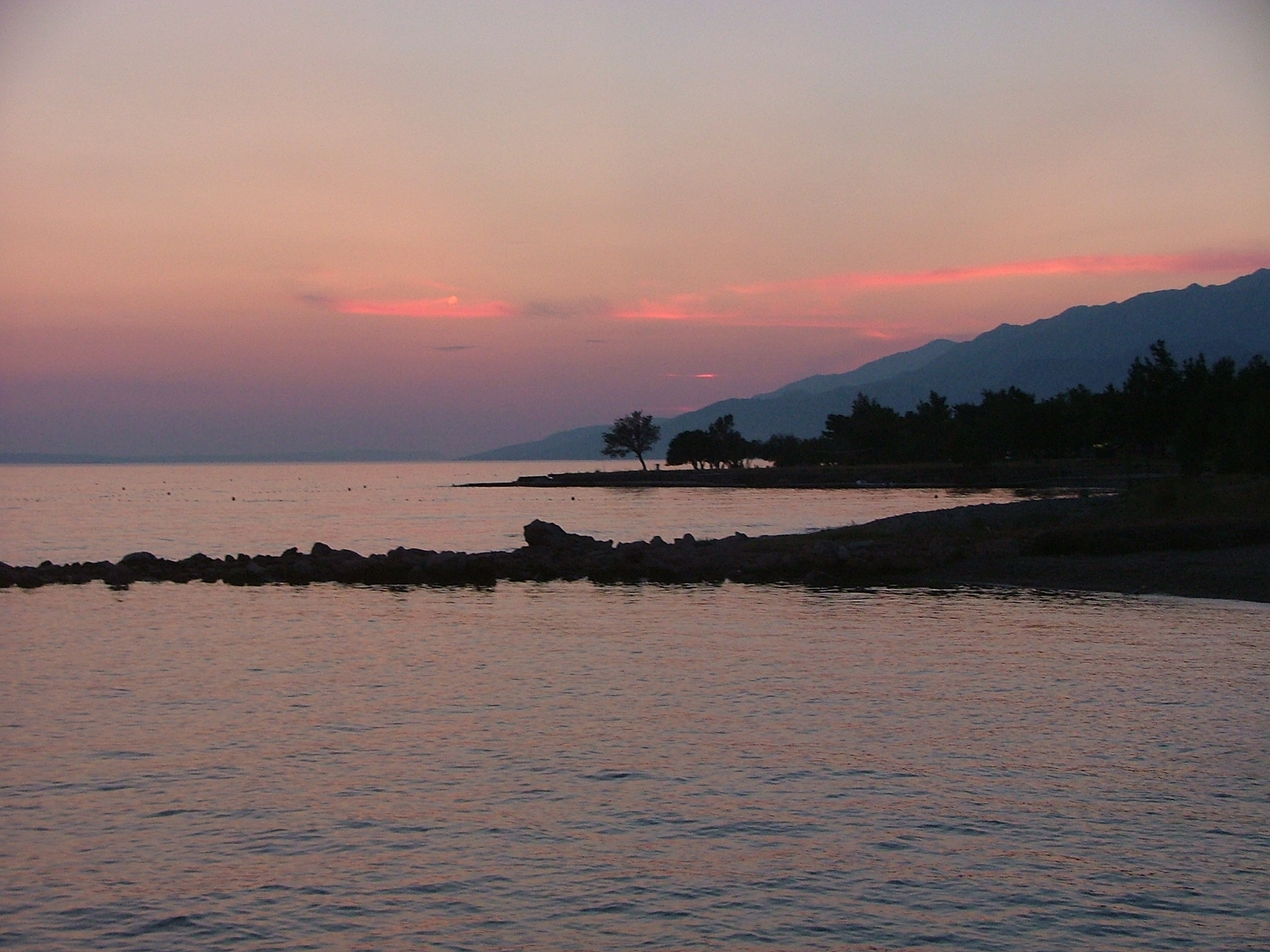 Sunset at Starigrad-Paklenica, Croatia